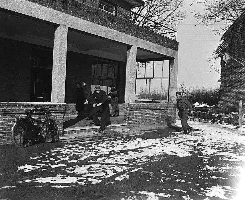 Reconstruction on February 20, 1948 of the Venlo Incident that took place on November 9, 1939.